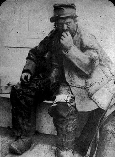 Leatherman circa June 9, 1885